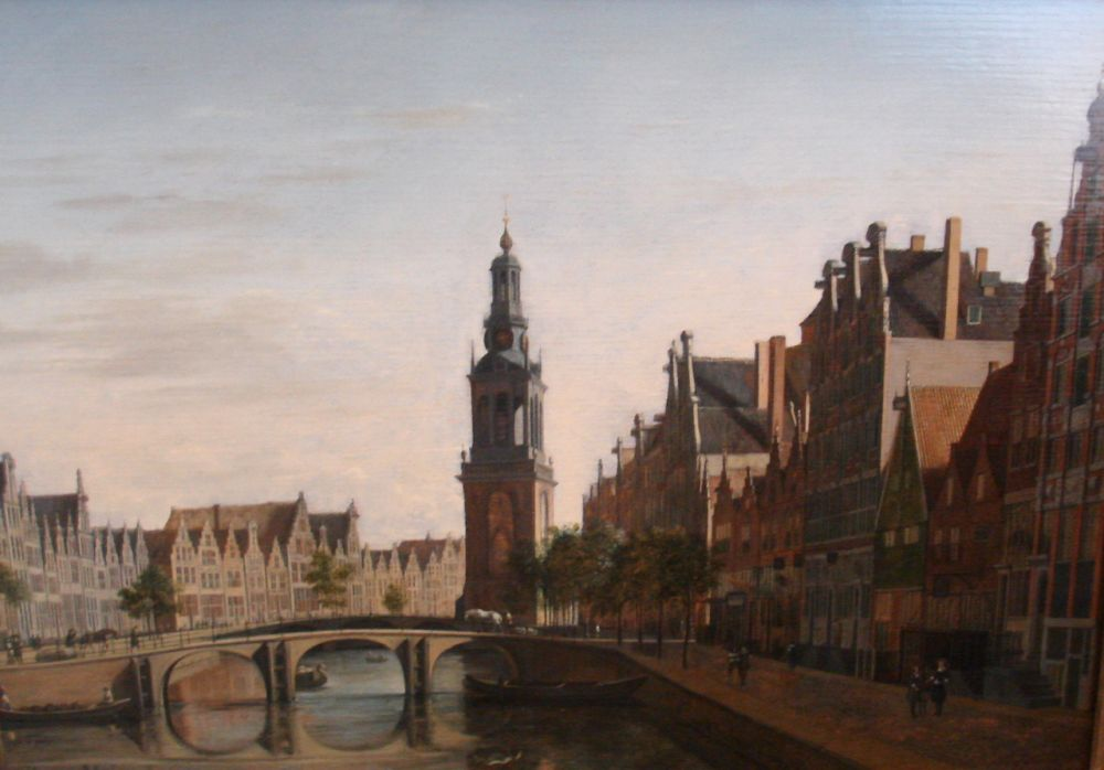 This image is available from the Netherlands Institute for Art Historyunder digital ID 249328. This tag does not indicate the copyright status of the attached work. A normal copyright tag is still required. See Commons:Licensing.